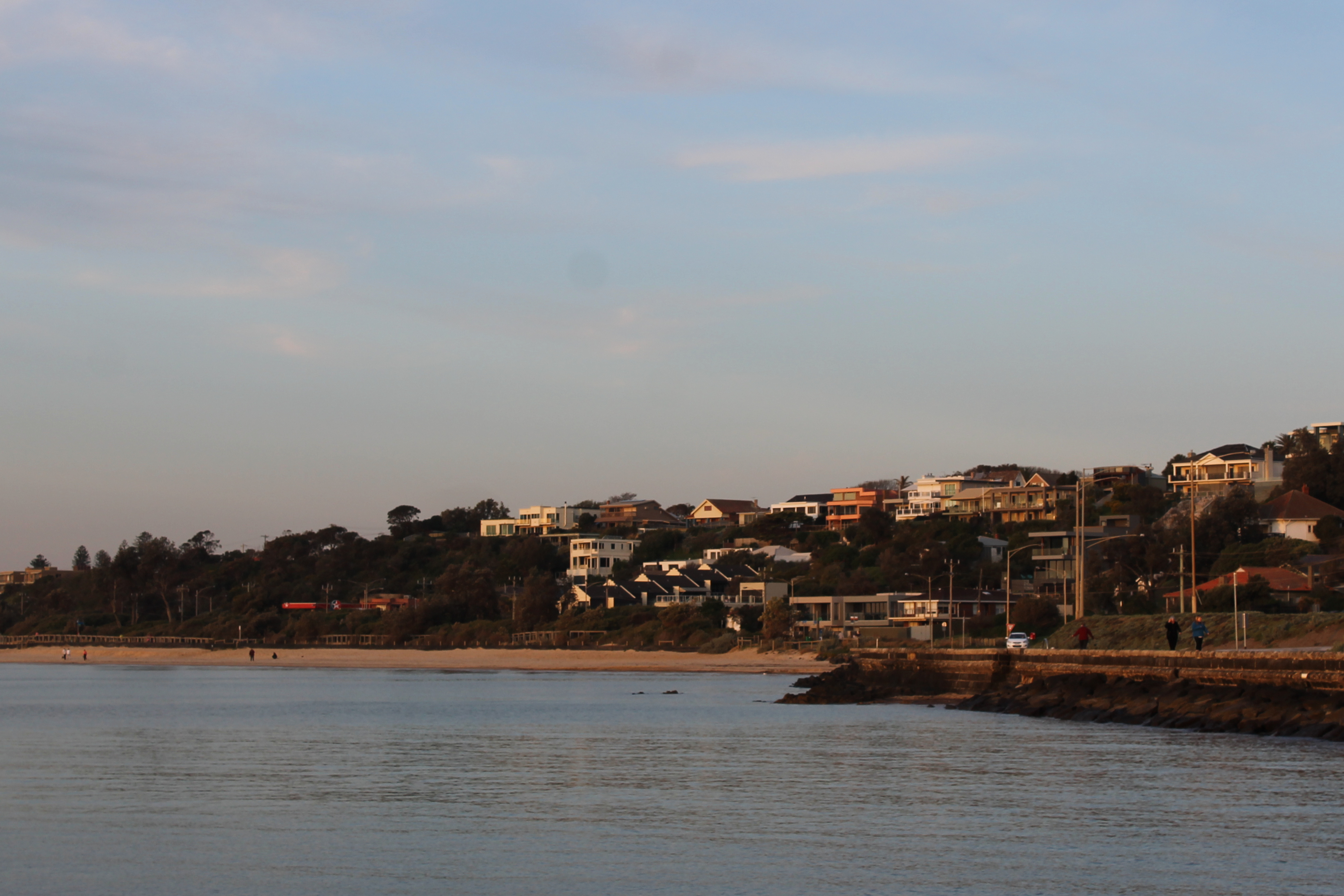 Houses on Olivers Hill in Frankston, Victoria, Australia.